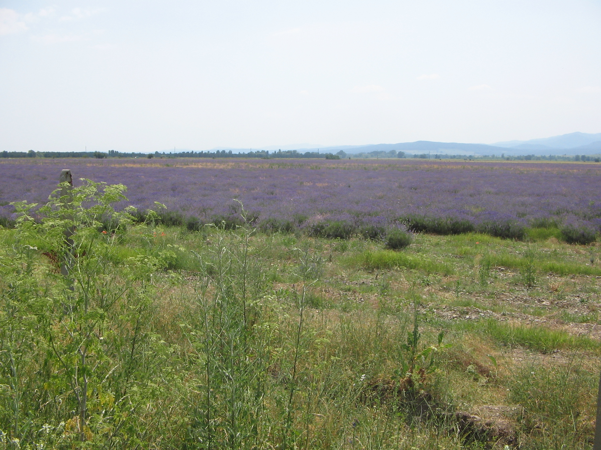 Rose Valley, Central Balkan National Park, Bulgaria, incl. Lavandula